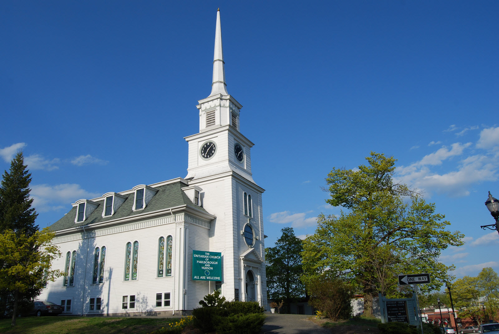 Hudson-Marlborough Unitarian Church